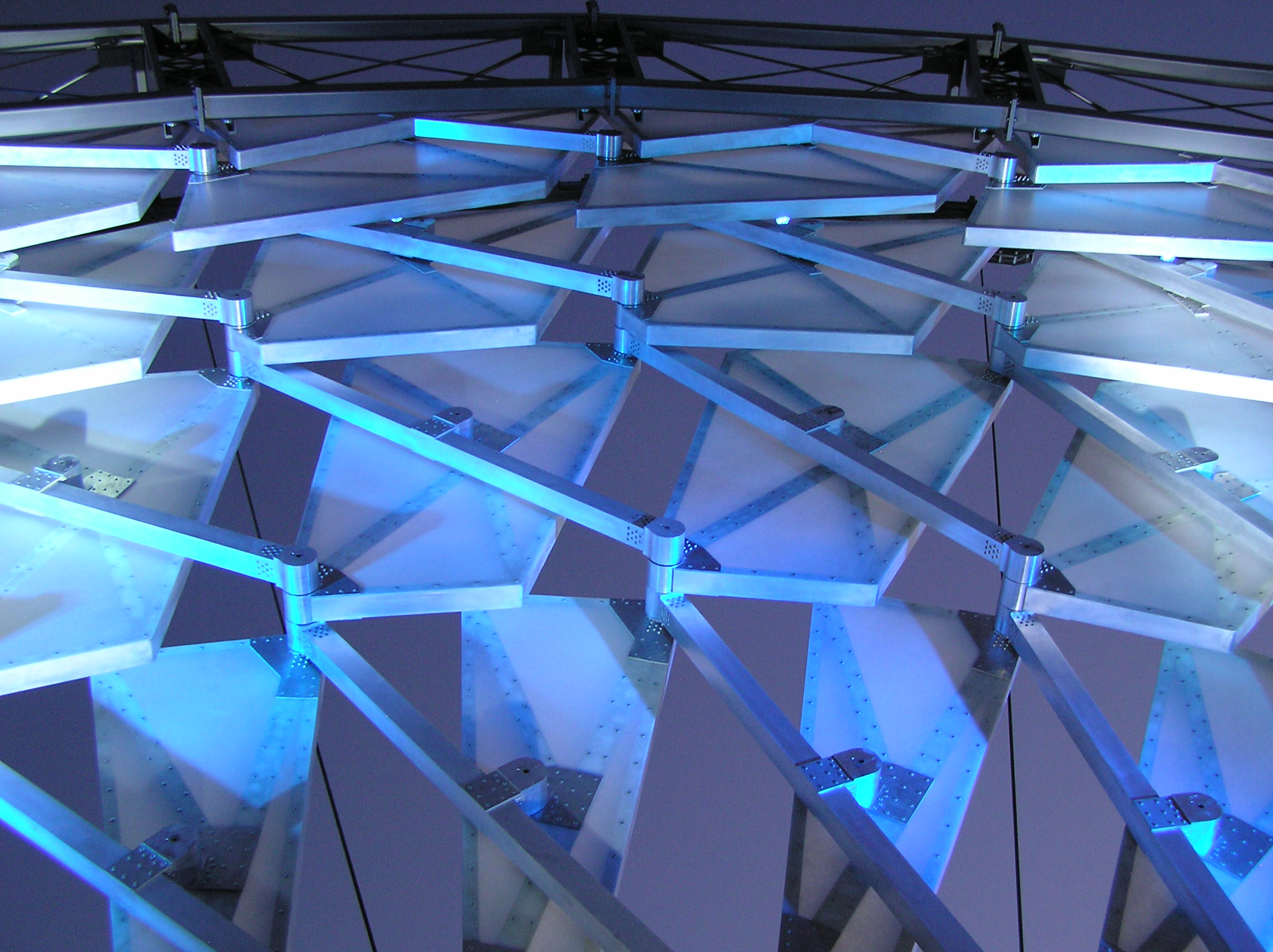 Detail of Hoberman Arch, at the Salt Lake 2002 Olympic Cauldron Park